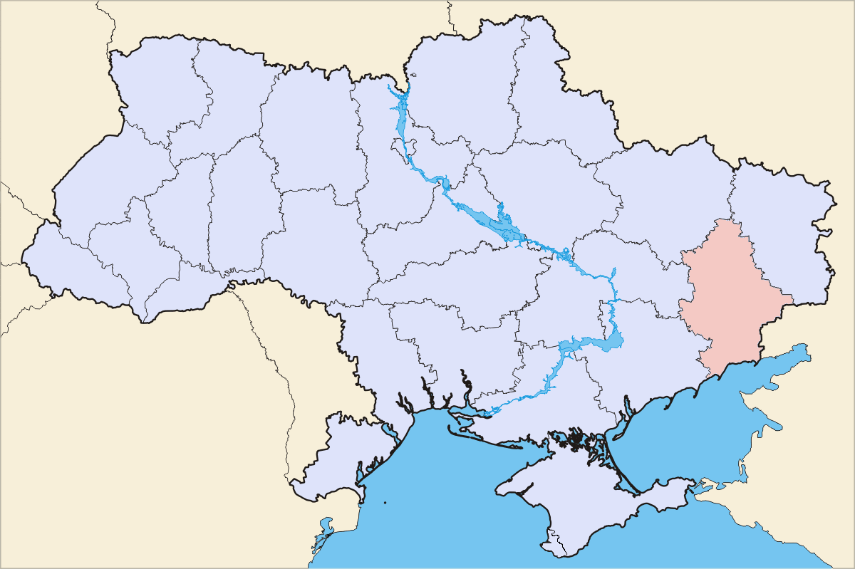 Political map of Ukraine, highlighting Donetsk Oblast